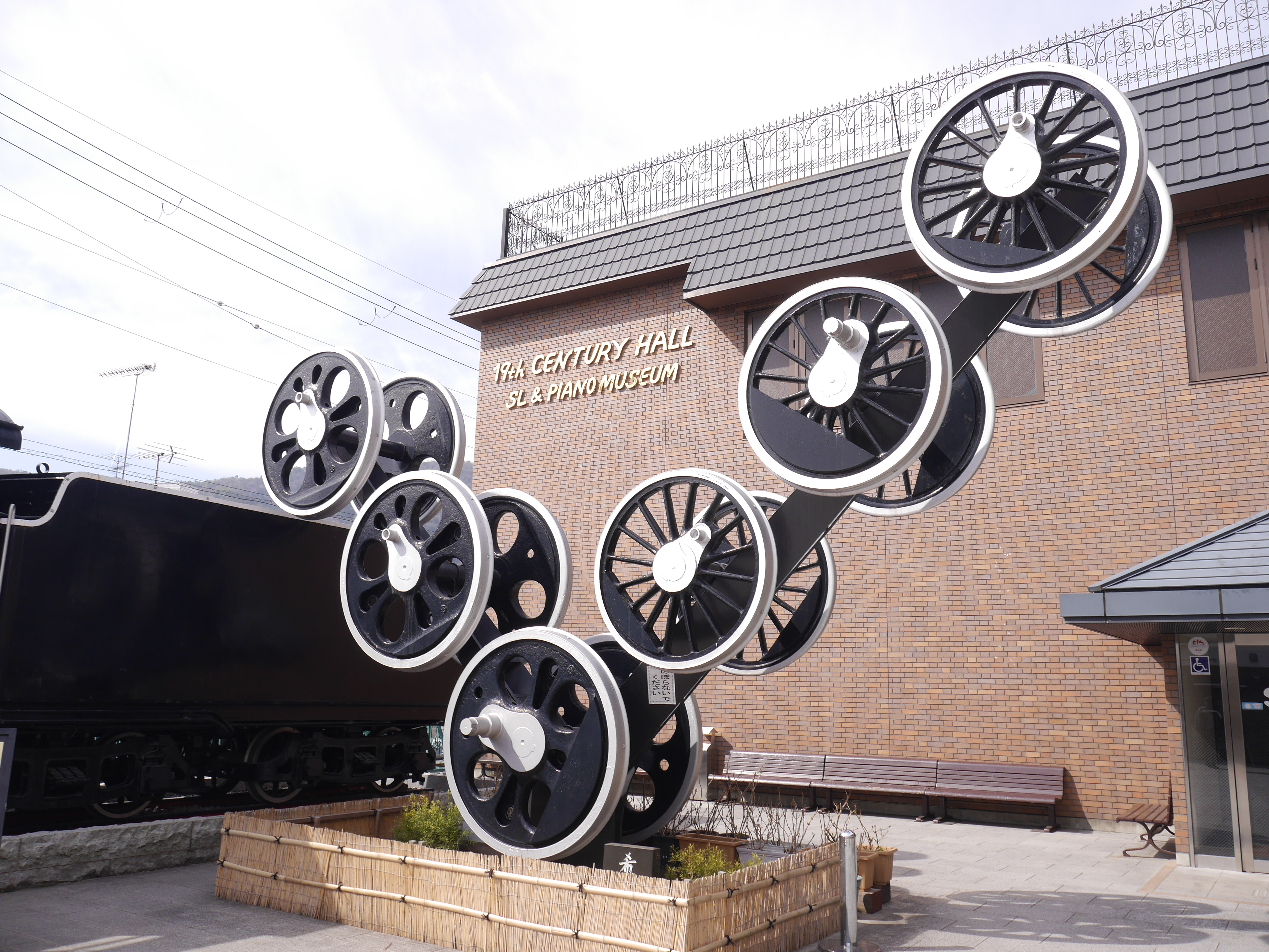 The monuments made from driving wheels of steam engines